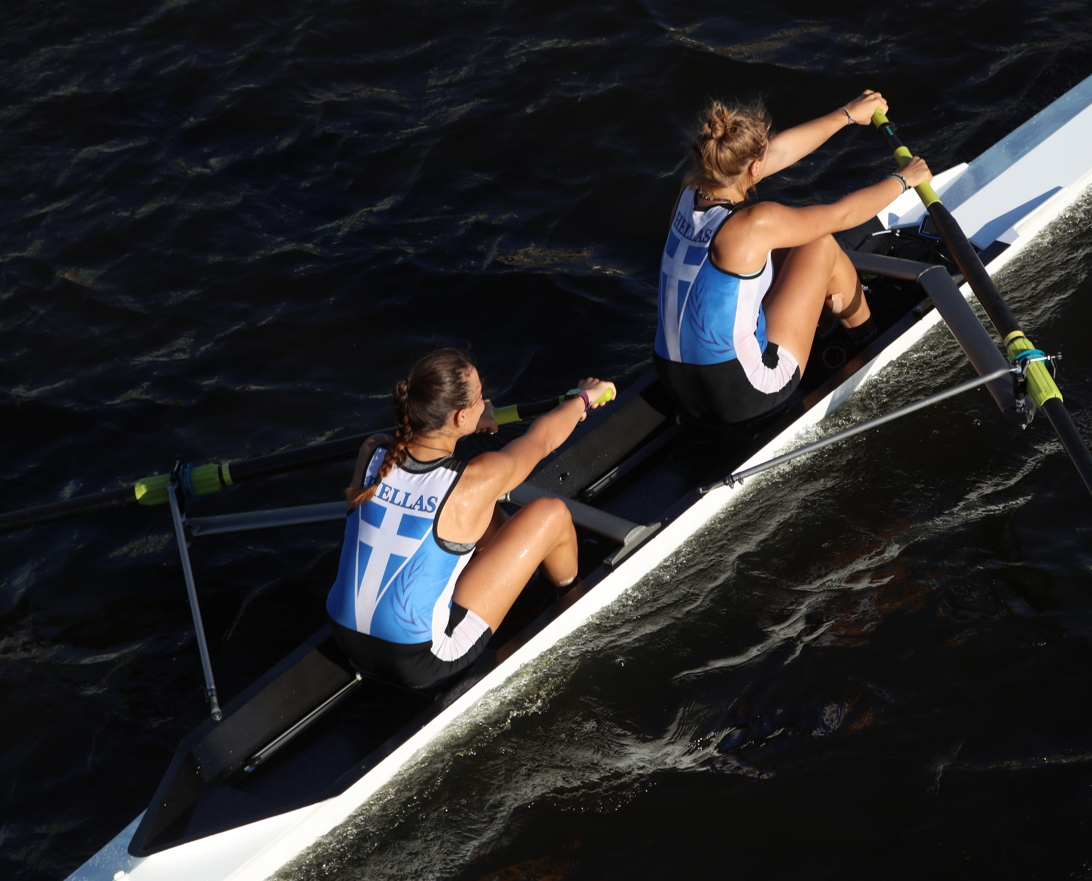 Final A in Girls' Pair (JW2-) at the 2018 Summer Youth Olympics in Buenos Aires on 9 October 2018.